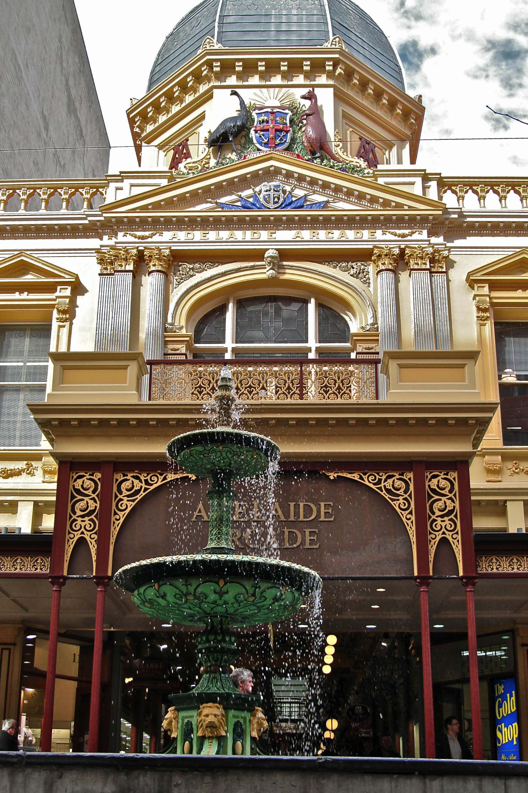 Image of the historic Victorian Fountain situated outside Adelaide Arcade.